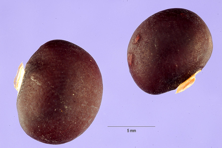 Seeds of Pachyrhizus ahipa